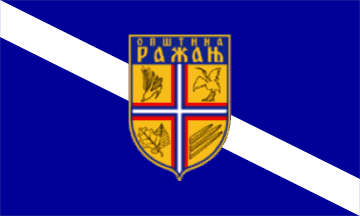 Flag of the city and municipality of Ražanj in Serbia